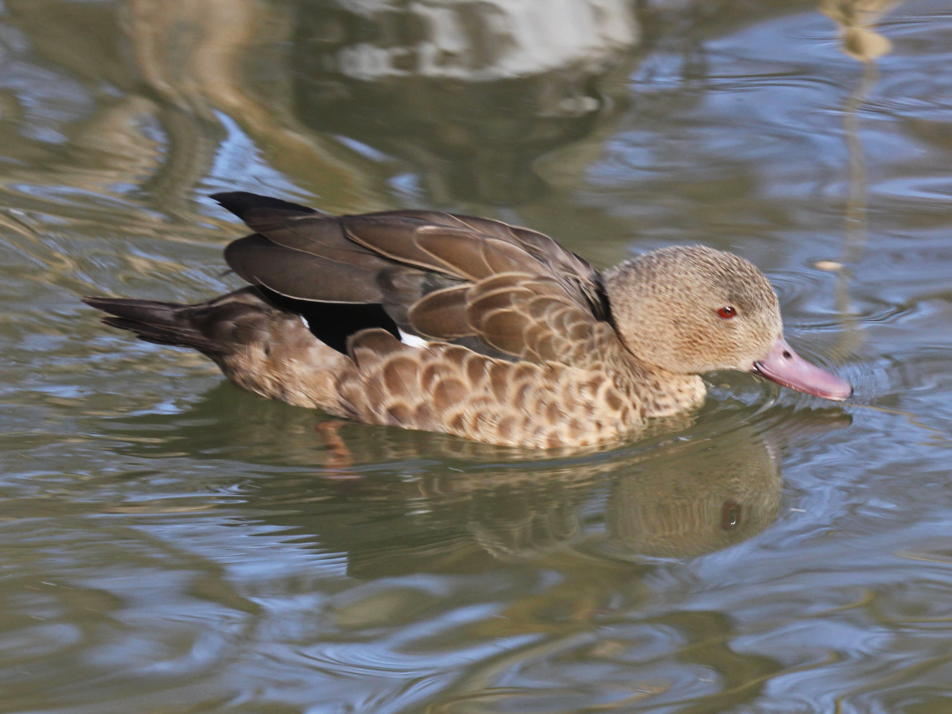 Bernier's Teal, also Madagascar Teal, (Anas bernieri) - Sylvan Heights Waterfowl Park, Scotland Neck, North Carolina